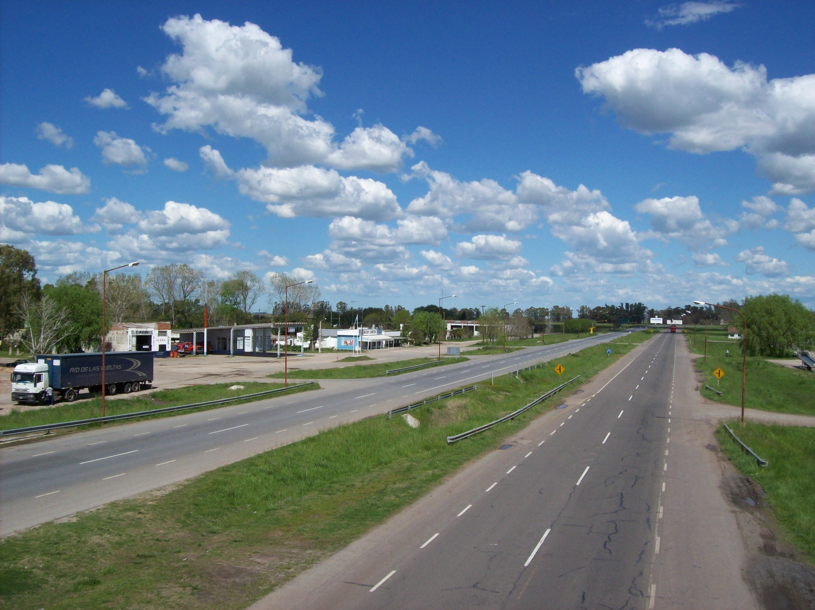 Autovia 2 towards south at Las Armas, Buenos Aires Province, Argentina.